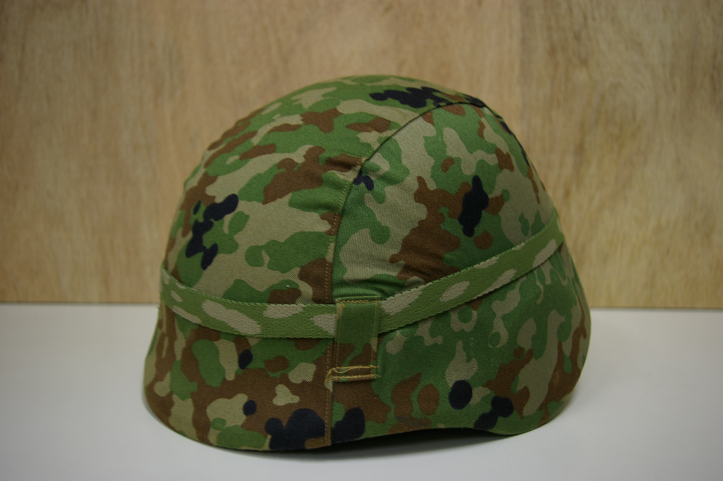 JGSDF(Japan Army) Type88 Helmet at Camp HIGASHI-CHITOSE.